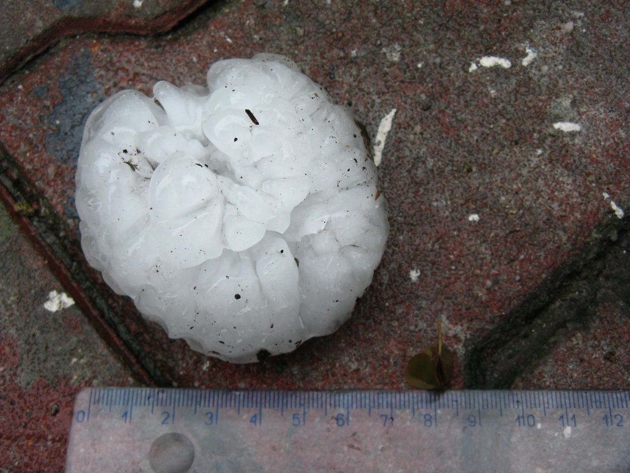 Hail, Katowice, 15 august 2008